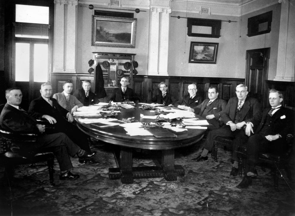 Parliamentary cabinet meeting , ca. 1932. Mr. Forgan-Smith is at the head of the table facing the camera.